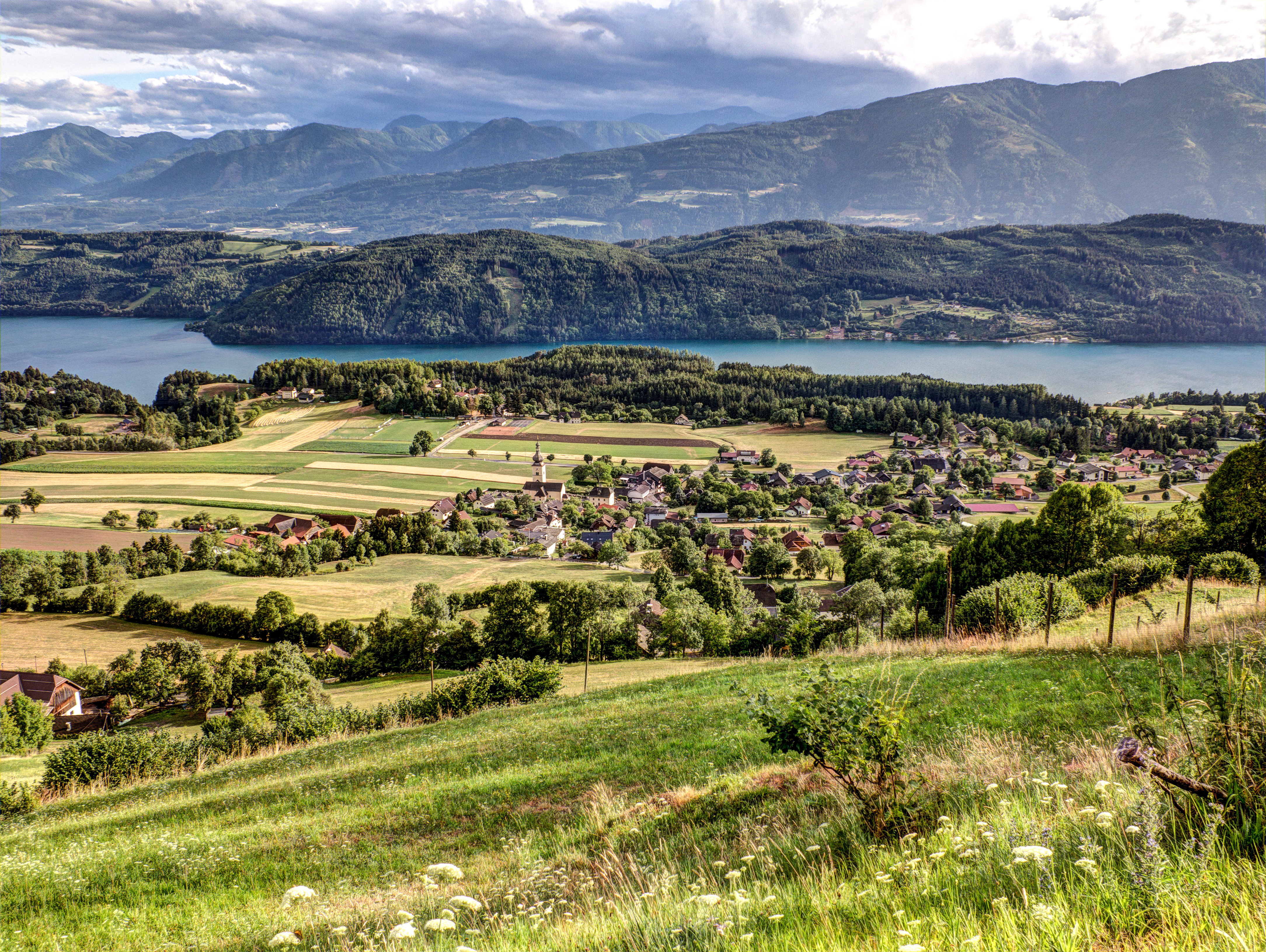 Obermillstatt near Lake Millstatt (Millstätter See), district Spittal an der Drau in Carinthia / Austria / EU. View from location Stadl Boden towards south. In the background Lake Millstatt and the Millstätter See Rücken. Summer evening in July. [Special thanks for information to Alois Auer vlg Messner.]